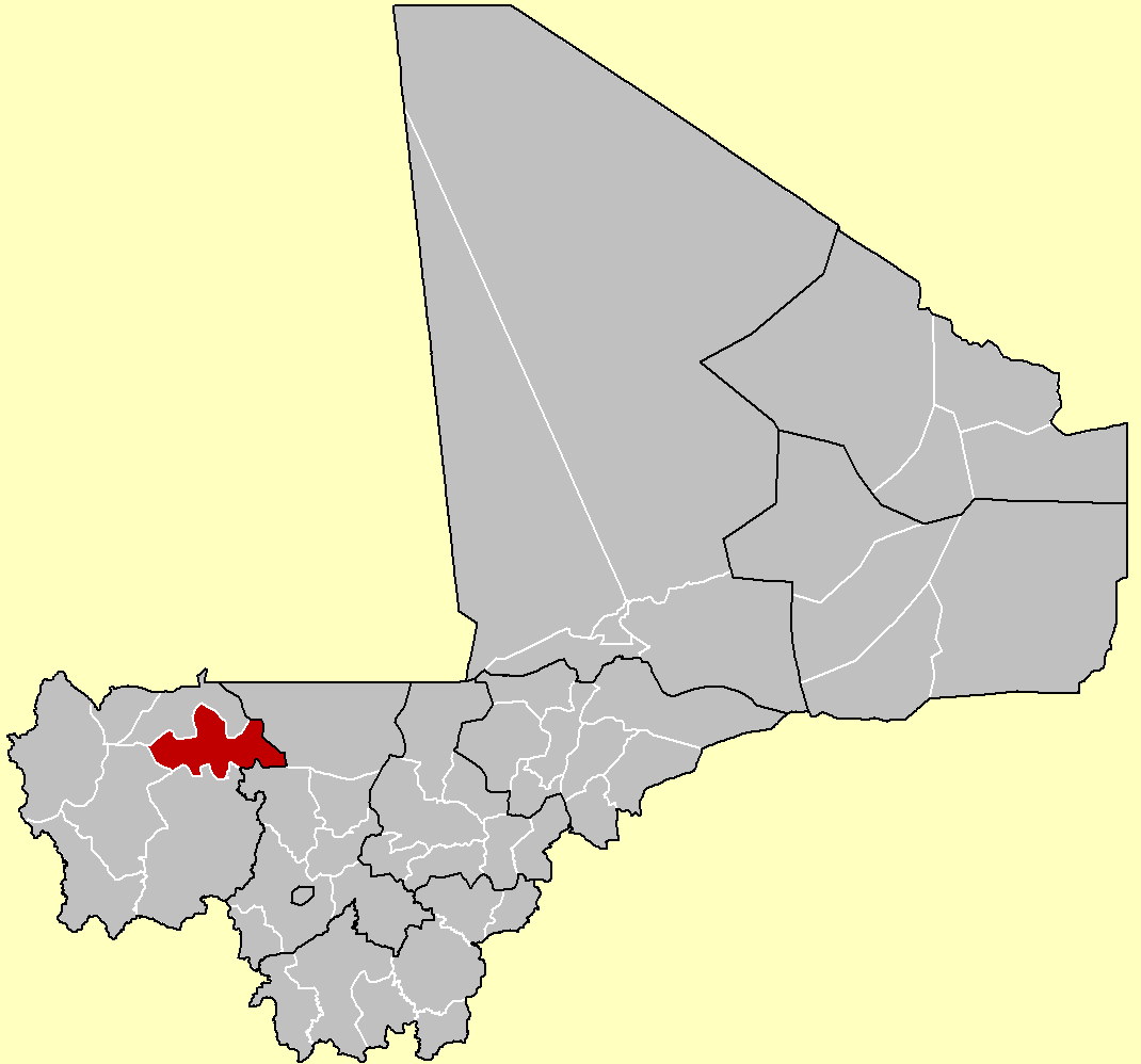 Map of Diema Cercle, Mali